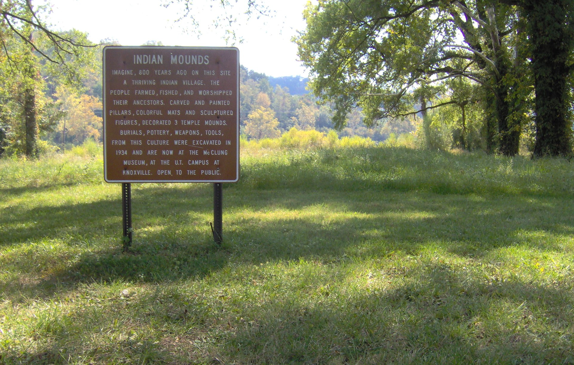 Sign recalling the Irvin Village Site at Cove Lake State Park in Campbell County, Tennessee, in the southeastern United States. Excavated as part of the Norris Basin Project in the 1930s, the site was once home to a substantial Mississippian-period (c. 1000-1500 A.D.) Native American village.